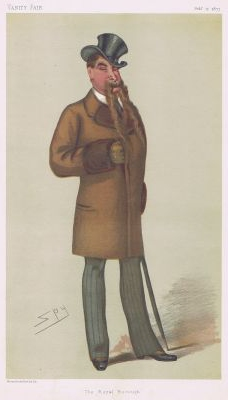 Caricature of Mr Robert Richardson-Gardner MP. Caption read "The Royal Borough".